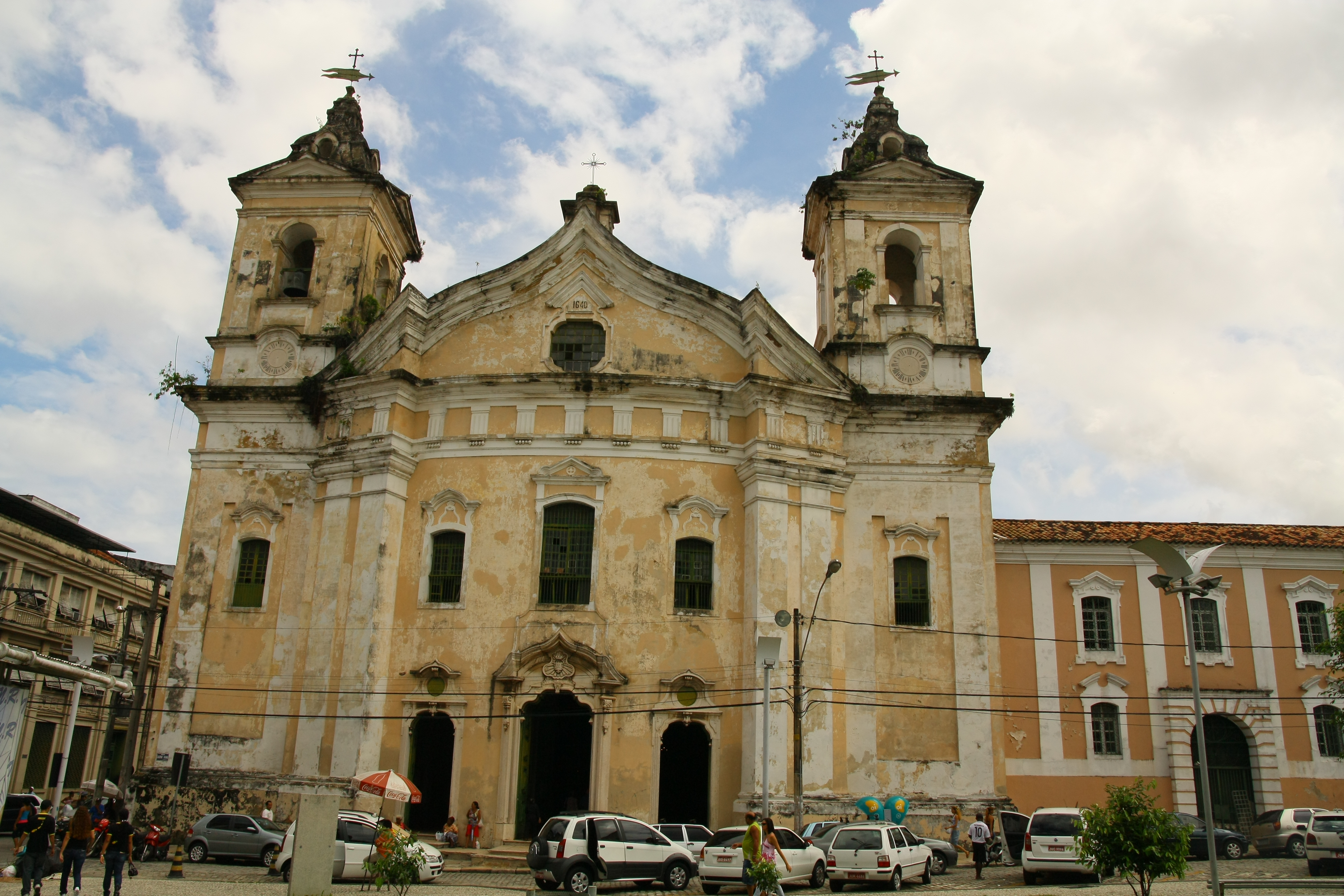 Mercês Church (18th century) in Belém